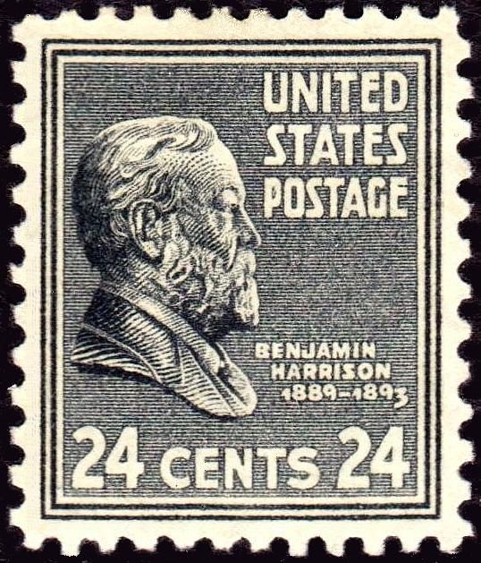 US Postage stamp: Benjamin Harrison, Issue of 1938, 24c